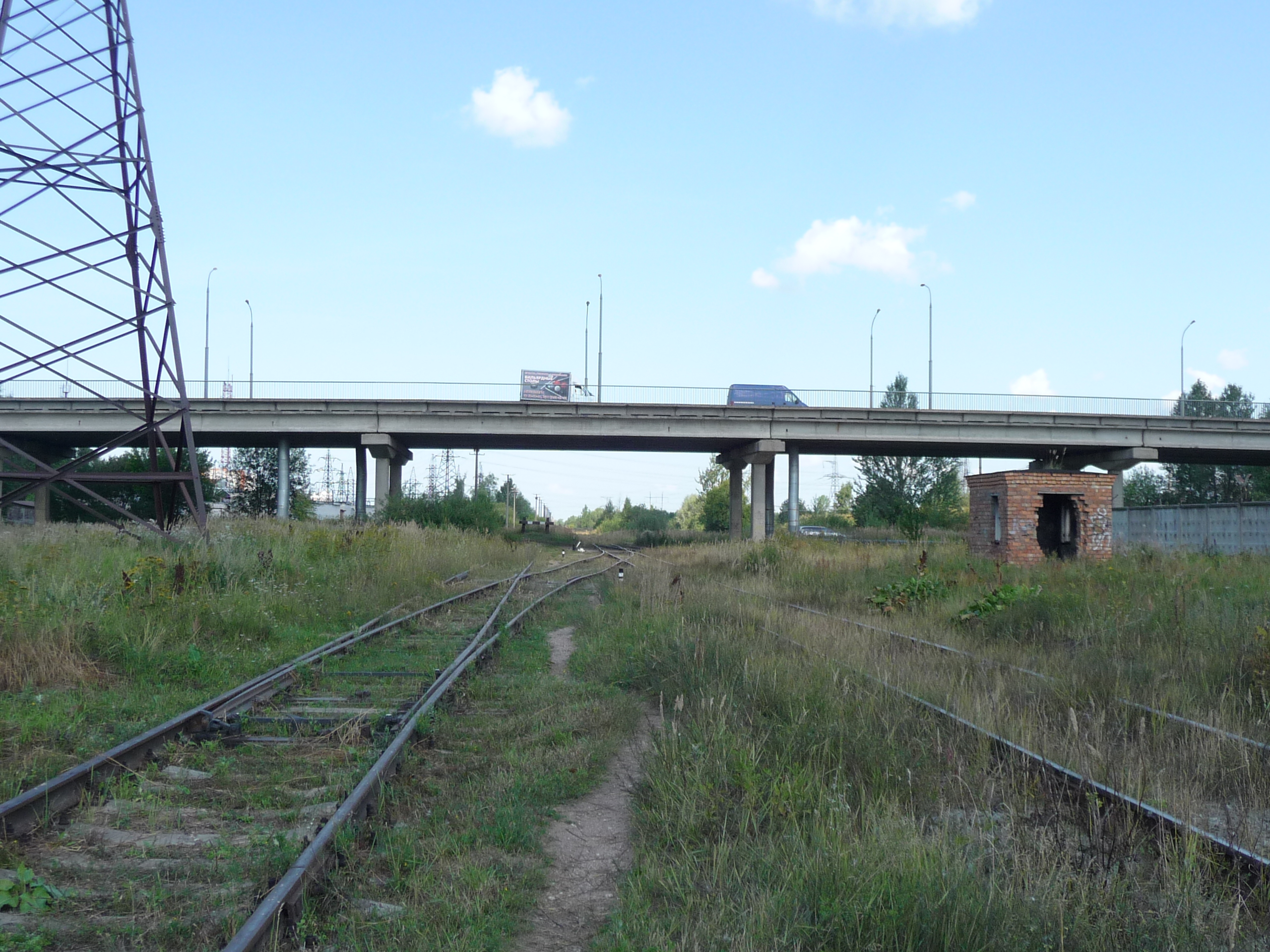 Zapskov'e, a bridge located in Pskov, Russia.